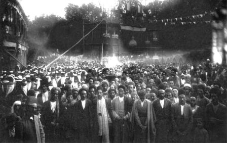 constitutional revolution in Iran